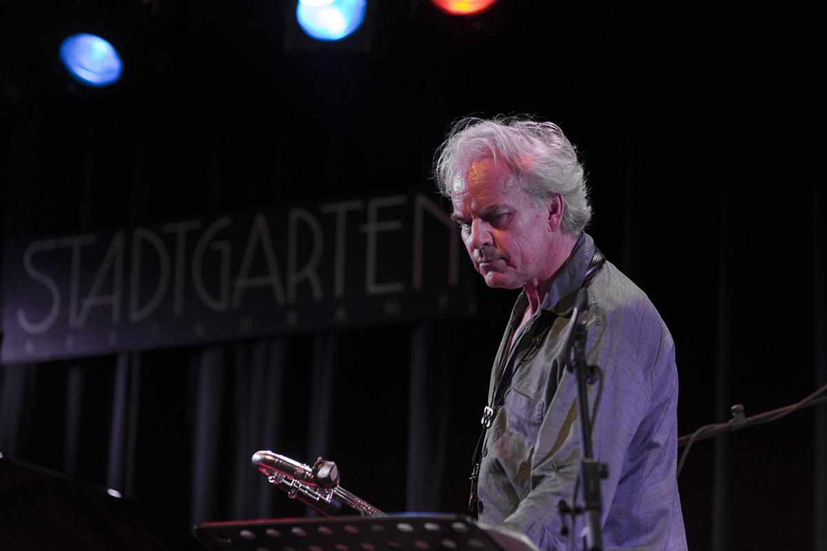 German Jazz musician Michael Riessler at Stadtgarten Köln/Cologen